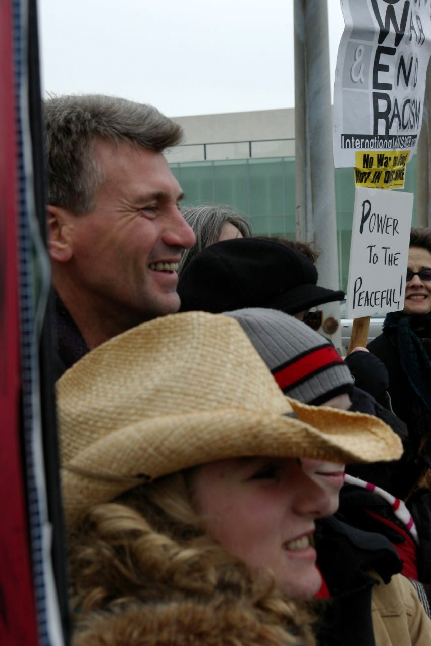 against the war, March 18, 2007, Minneapolis, Minnesota